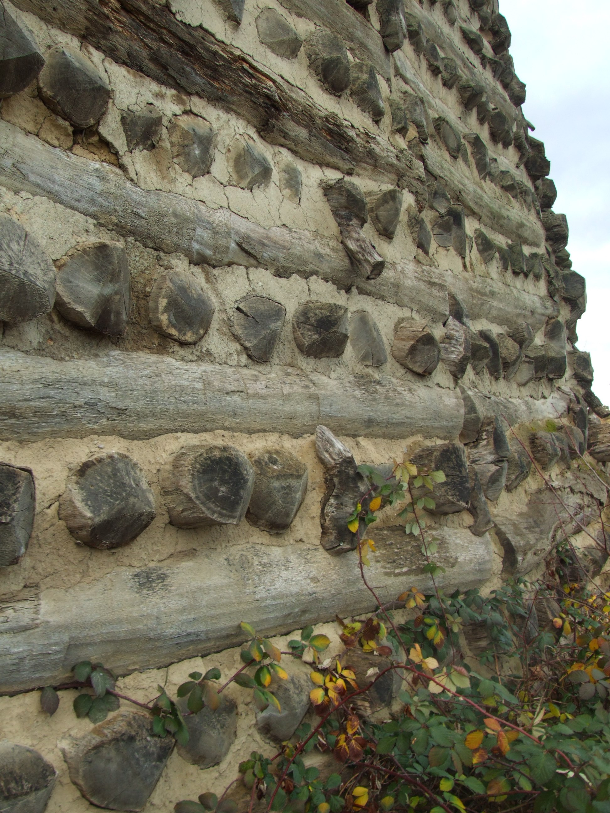 Refuge castle Raddusch (Raduš), Germany